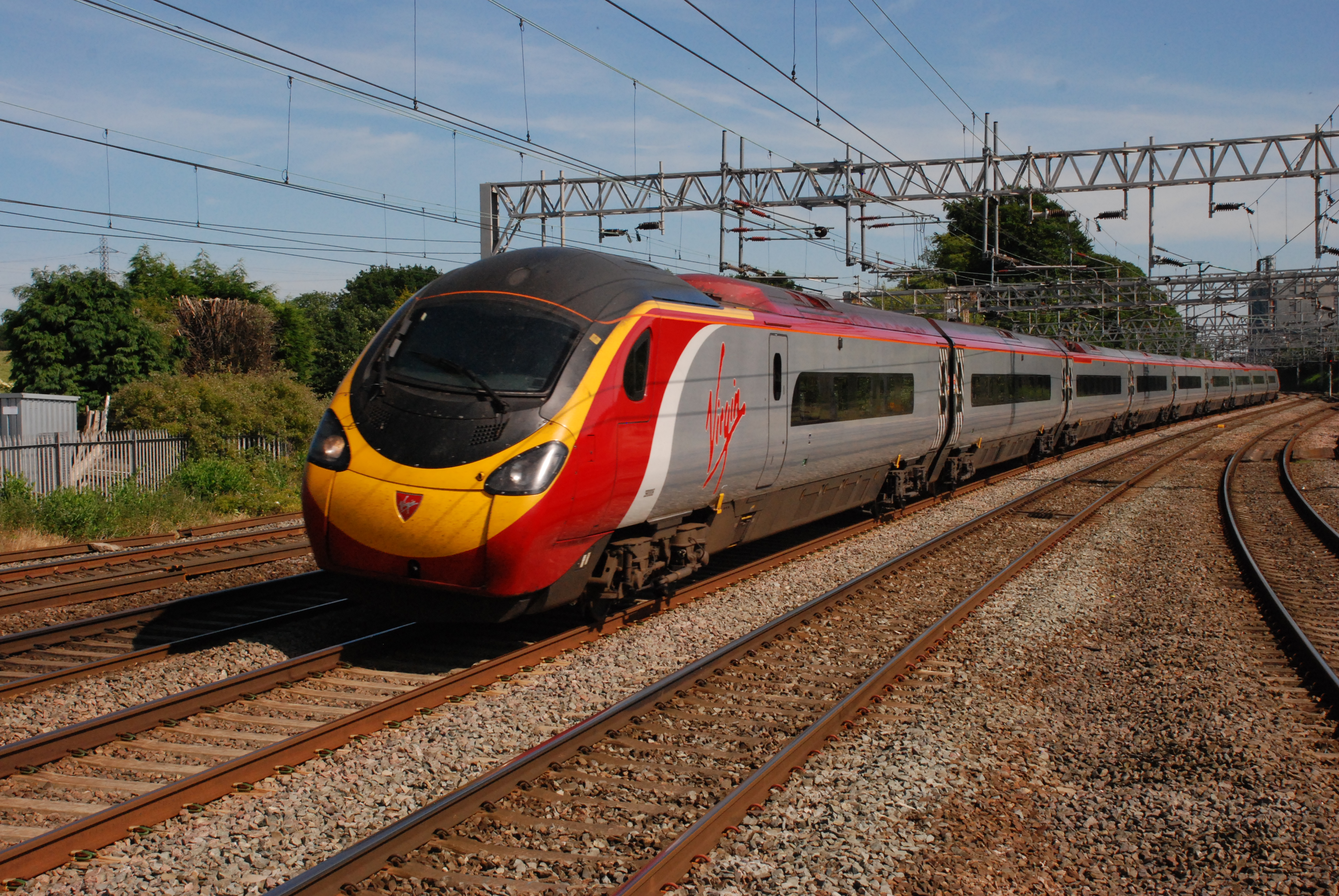 Virgin West Coast Pendolino train, Rugeley Trent Valley, June 2010.